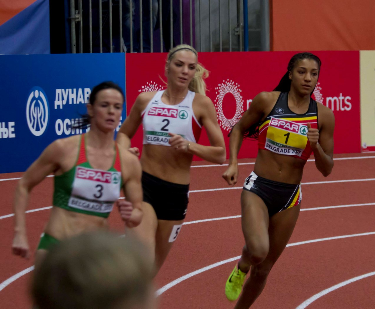 _312 pent 800m thiam